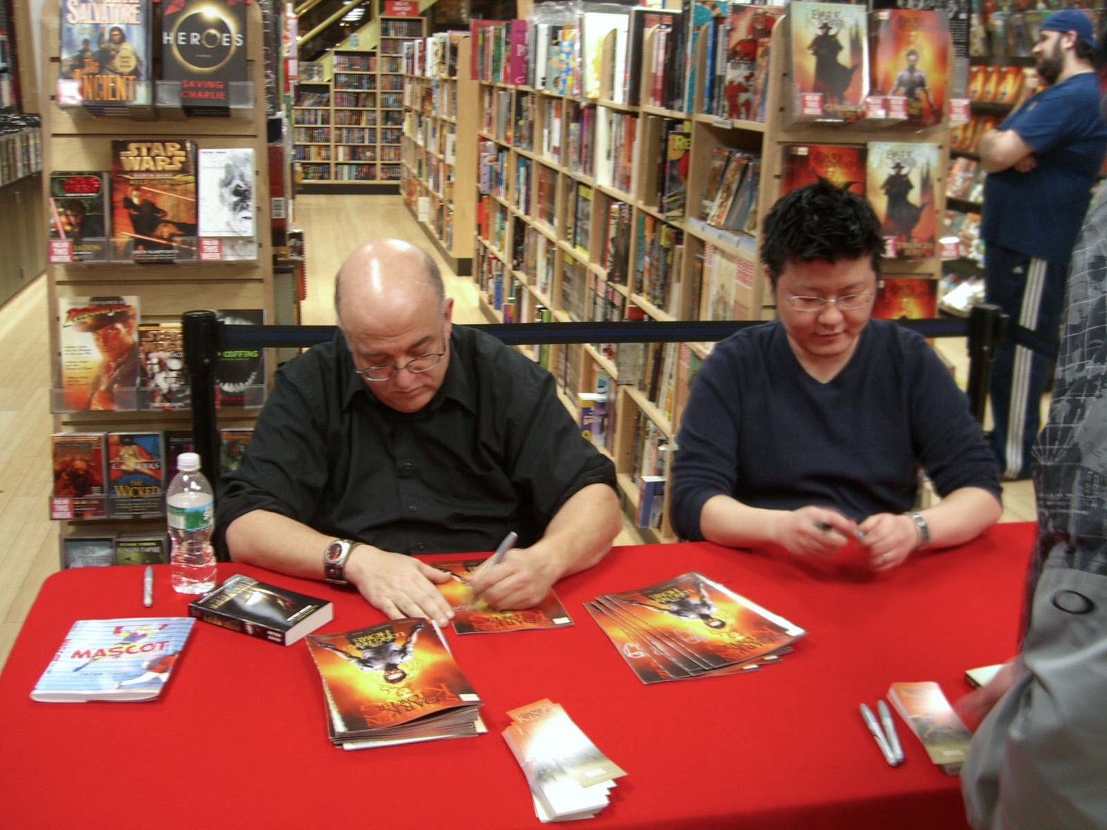 Comic book creators Peter David and Jae Lee at a March 5, 2008 signing for The Dark Tower: The Long Road Home at Midtown Comics in Manhattan.